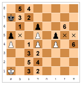 Lasker-Reichhelm position, described in 1932 treatise L'opposition et cases conjuguées sont réconciliées (Opposition and Sister Squares are Reconciled), by Vitaly Halberstadt and Marcel Duchamp